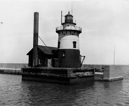 The Harbor Beach Lighthouse at Harbor Beach, Michigan, United States is listed on the US National Register of Historic Places (NRHP).